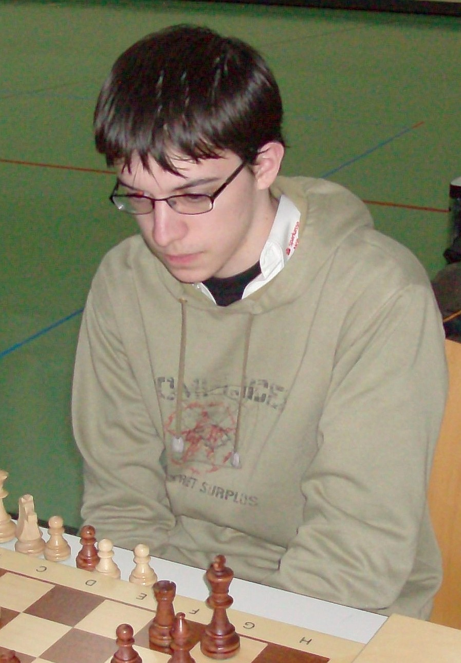 Maxime Vachier-Lagrave, chess grandmaster from France